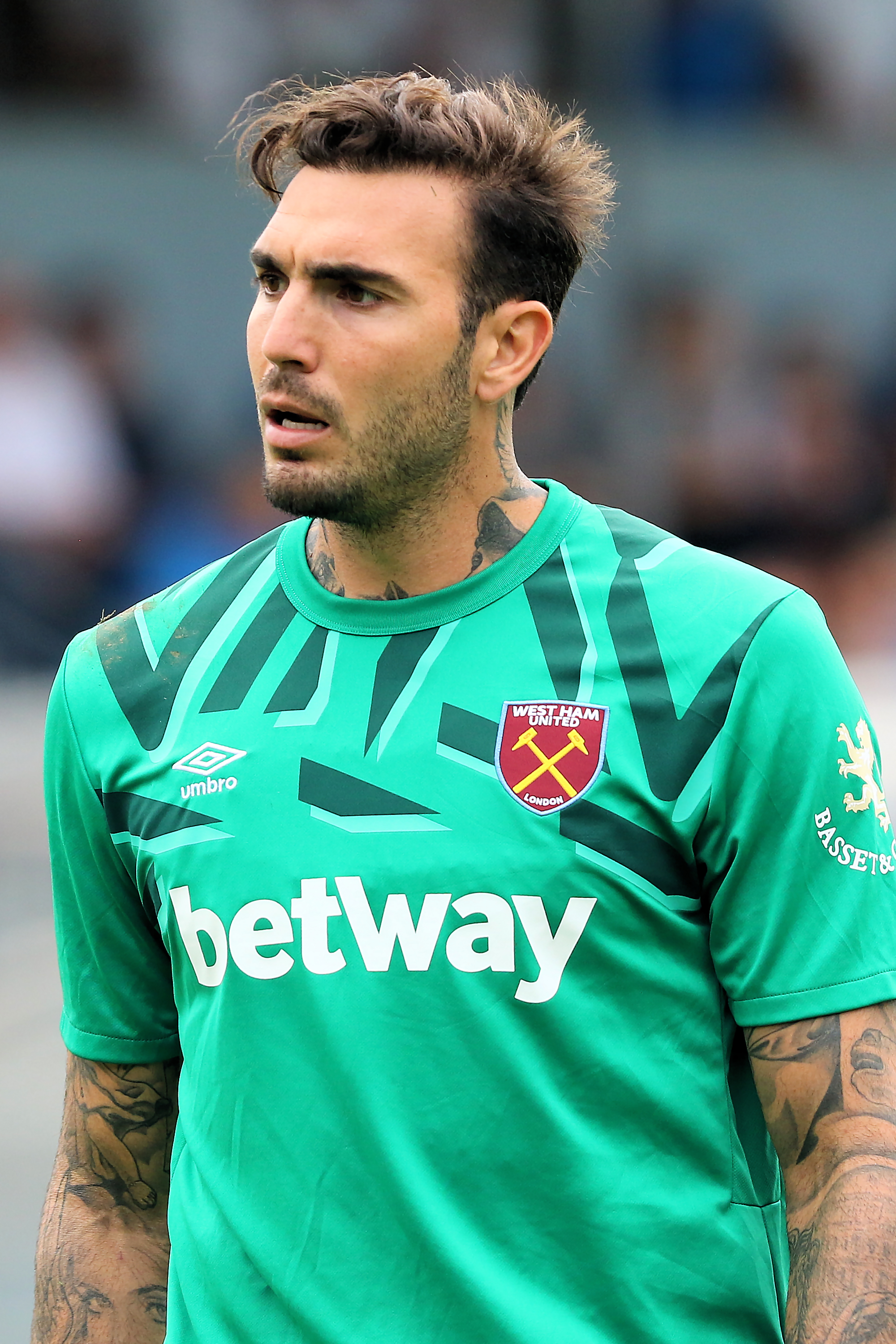 Friendly match Hertha BSC (blue-white shirts) vs. West Ham United (red-blue shirts) at 31-07-2019 3-5 (3-2) in the Sonnenseestadium in Ritzing. – The photo shows Roberto Jiménez Gago (goalkeeper of West Ham United).